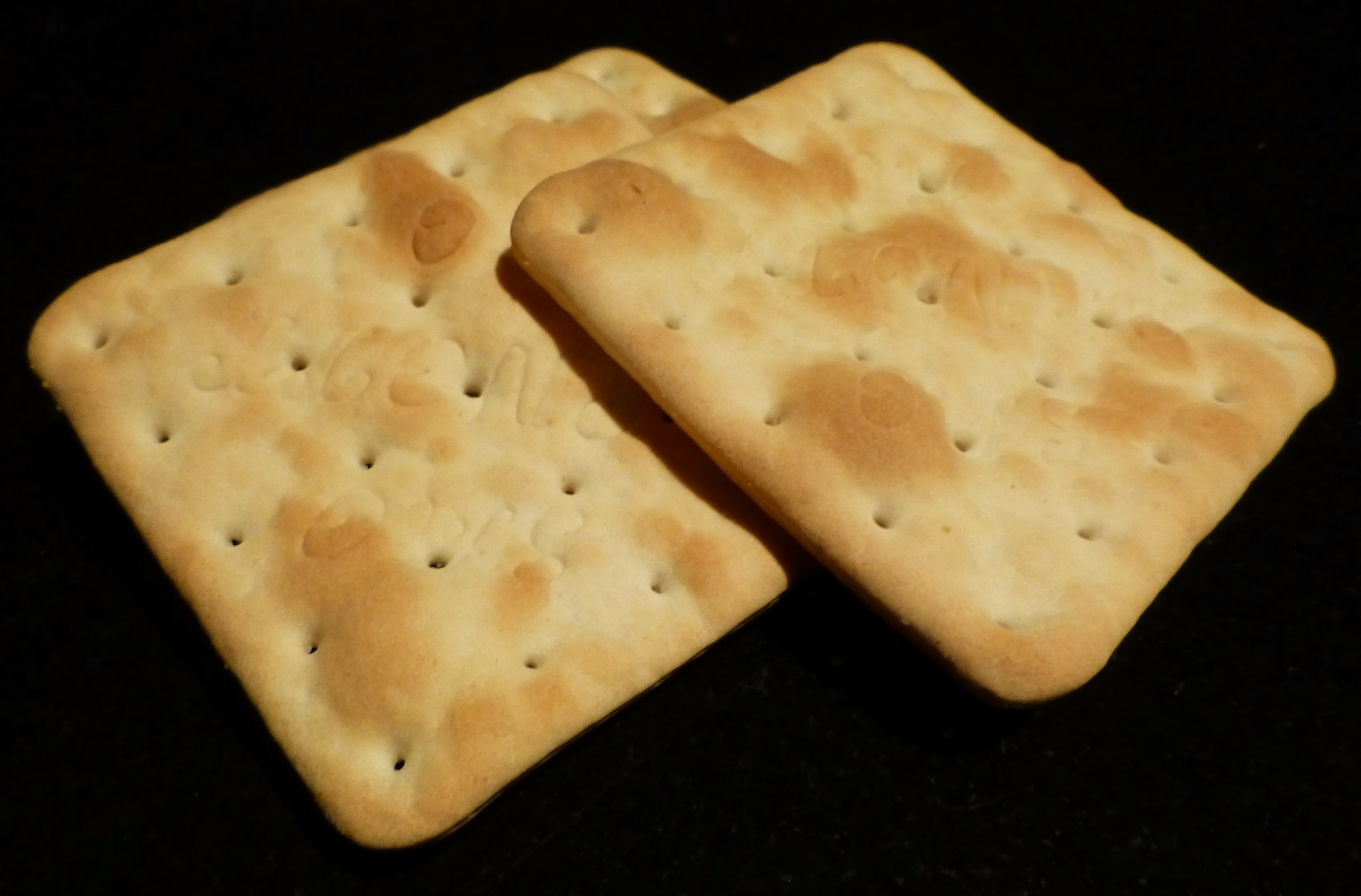 Three SAOs, an Australian brand of cream cracker, manufactured by Arnott's Biscuit Holdings.